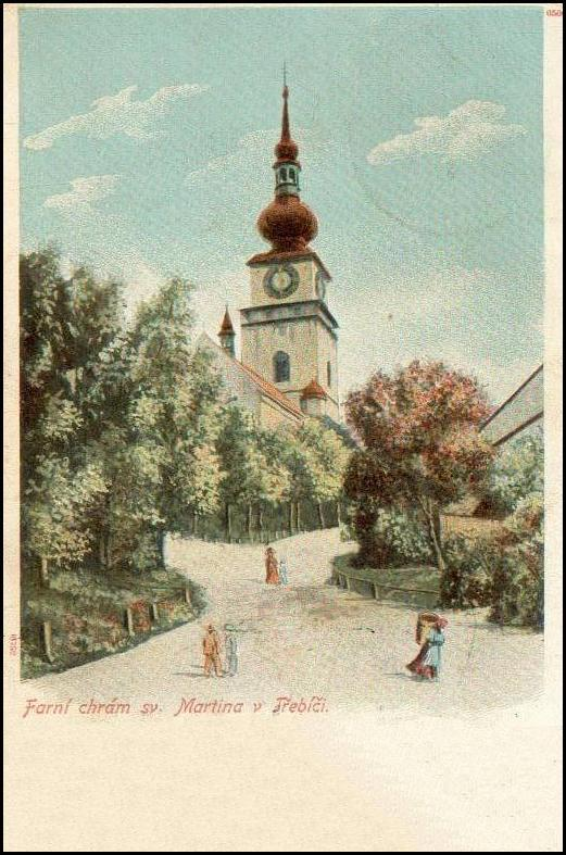 Church of Saint Martin and Town Tower in 1901 in Třebíč, Třebíč District.